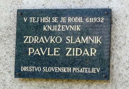 Pavle Zidar here-was-born plaque